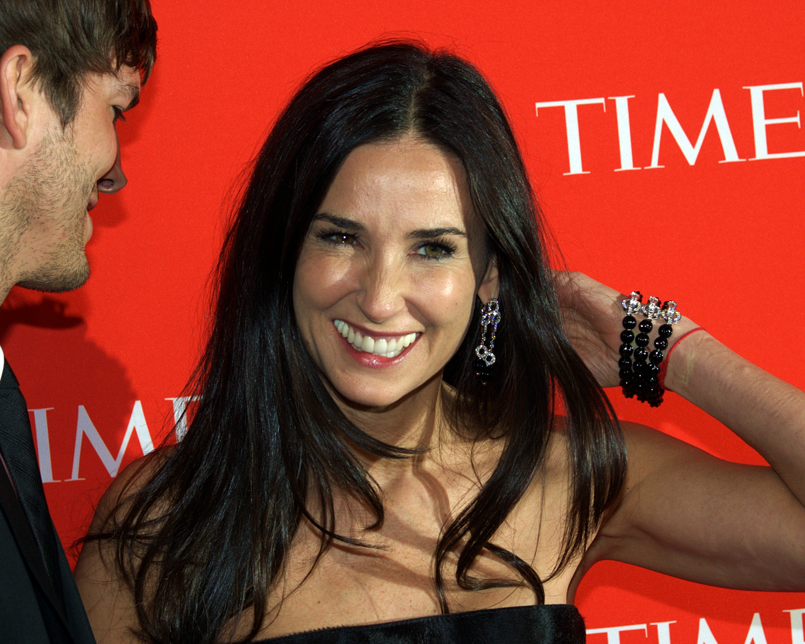 Demi Moore at the 2010 Time 100.